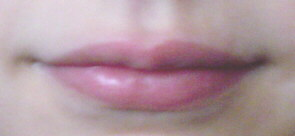 Lips of a woman